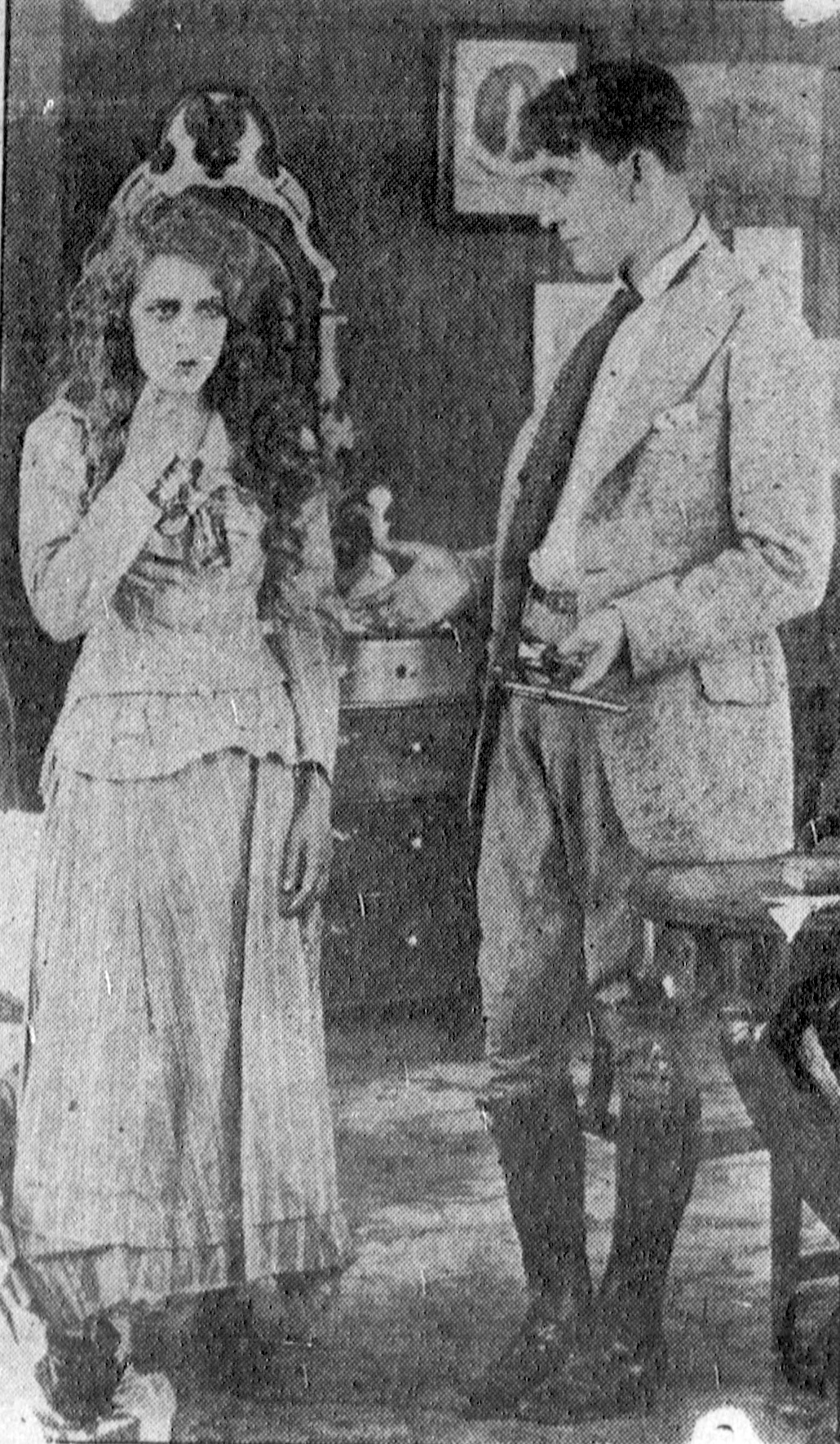 Caprice is a 1913 silent film produced by Daniel Frohman and Adolph Zukor(his Famous Players Film Company) and starring Mary Pickford. Scene from the film published in a newspaper.